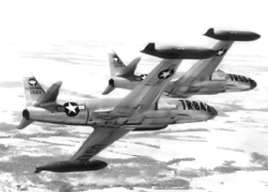 T-33 Shooting Star Jet Trainers from Williams AFB, Arizona, June 1949